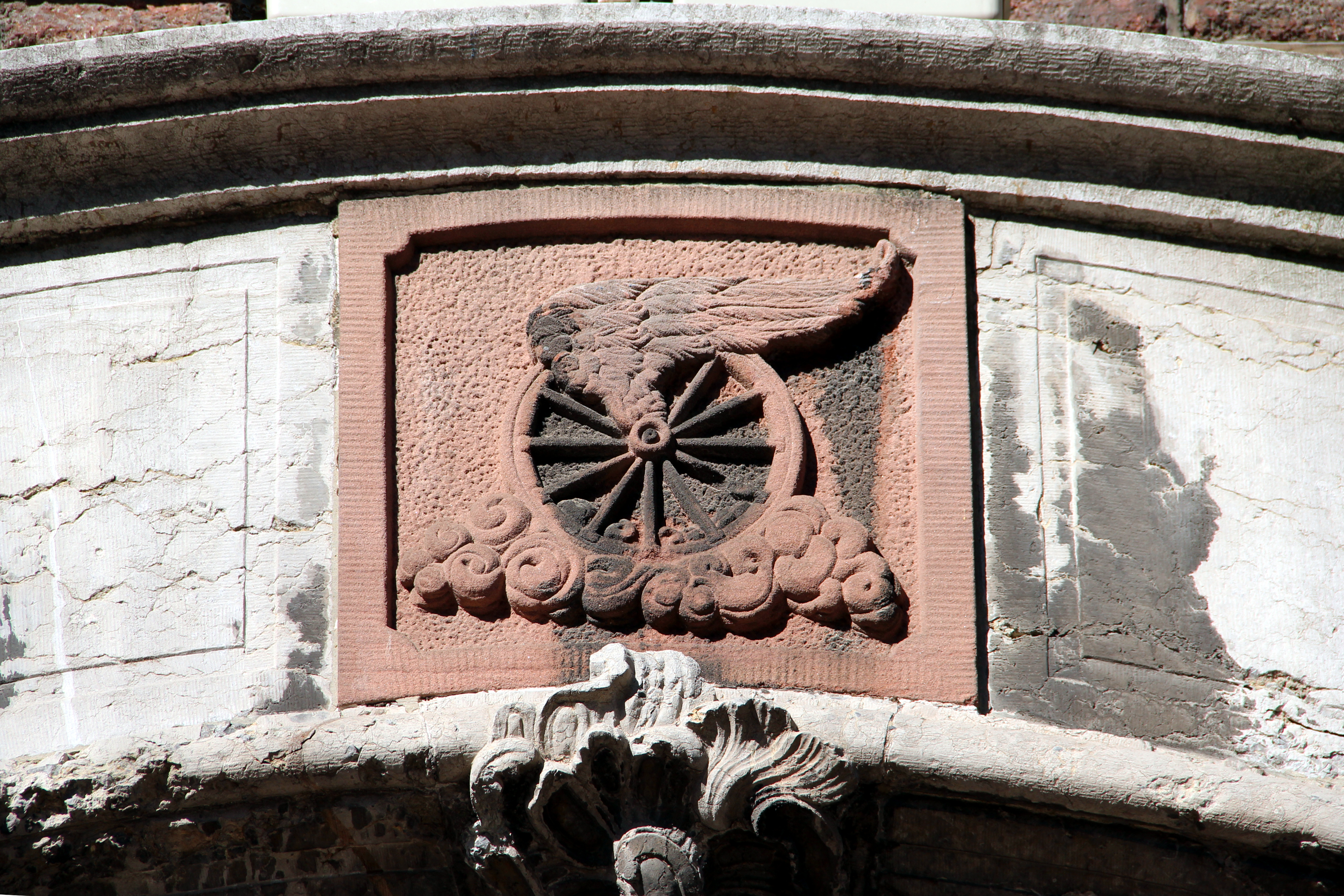 Eupen, Marktplatz 8. – Carved pink sandstone representing a winged wheel adorning the lintel of the main door of the previous draper house (XVIIIth century).